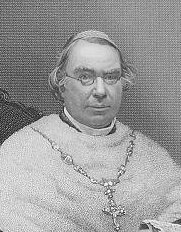 Nicholas Cardinal Wiseman, portrait (detail from file:Cardinal-wiseman.jpg)